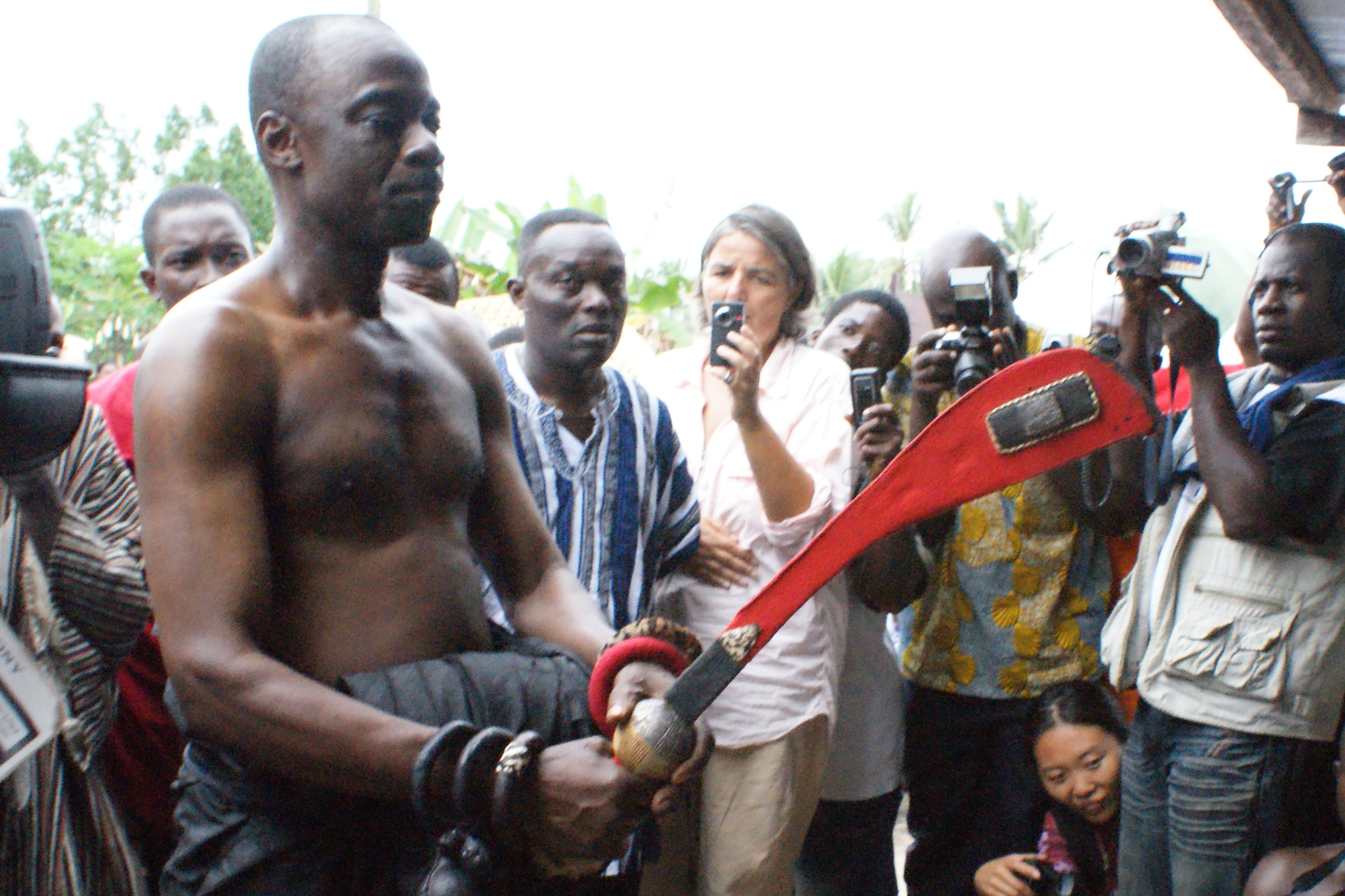 •Twi/ English Name: N/A /Sword •Material: Gold/clothe/fur/sea shell •Usage: This sword is used for the chief installation ceremony. •Brief Introduction: There are 7 families in Denkyira kindom, including the king’s family. When a new chief is going to be installed, he should use the sword to touch the king’s feet, swearing loyalty to the king.